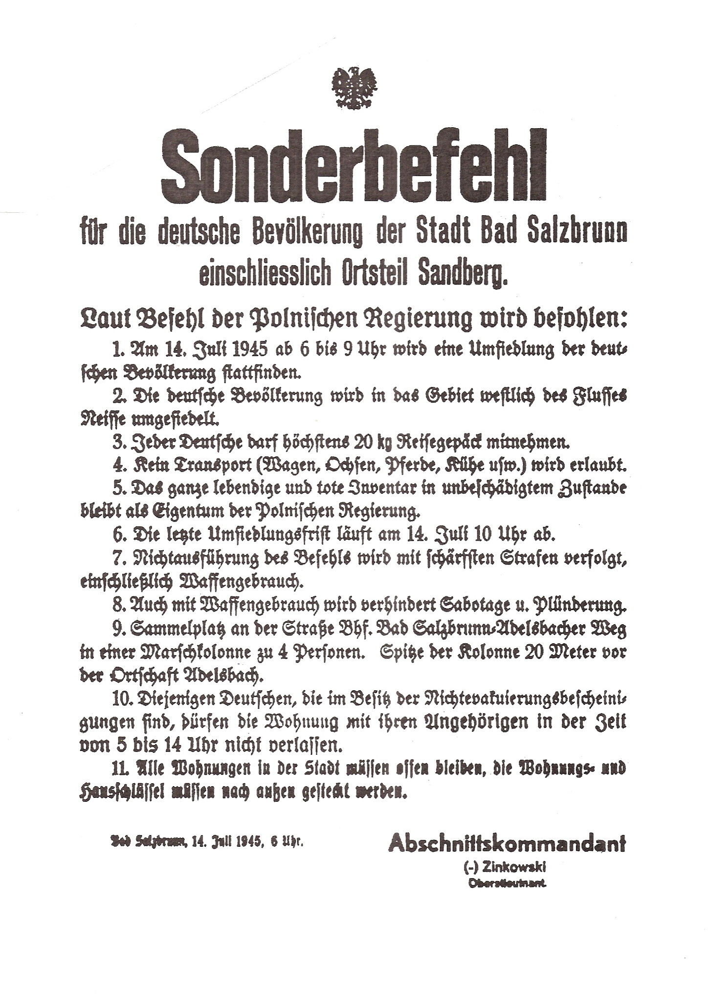 Polish authorities poster, announcement for Germans in order to force them to leave Poland after the second world war which started when Nazi Germany invaded Poland.